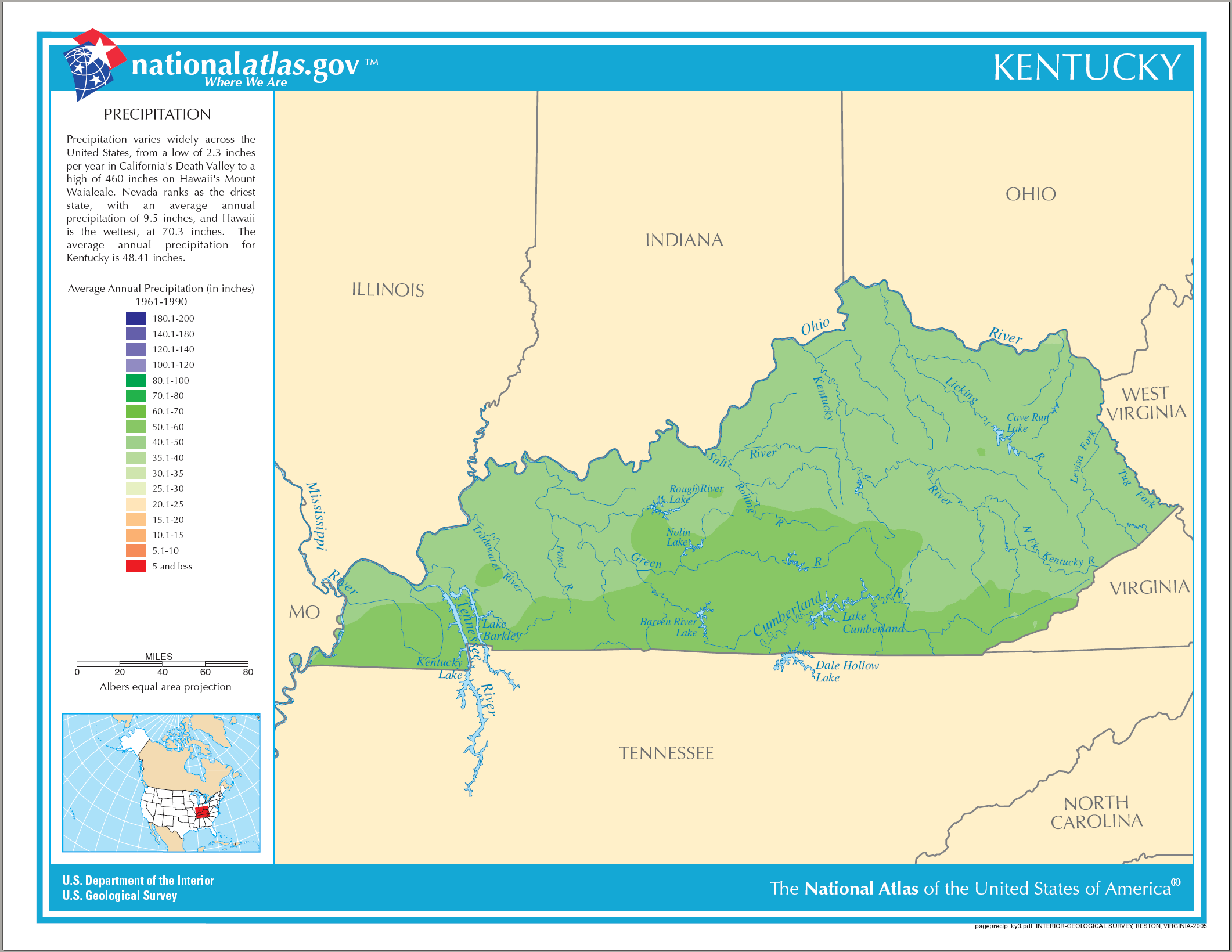 Precipitation of Kentucky